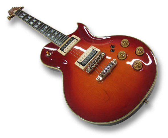 1983 Aria Pro II, PE-R100